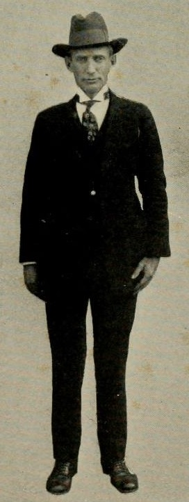 Wilbur Wade Card in 1922 Yearbook